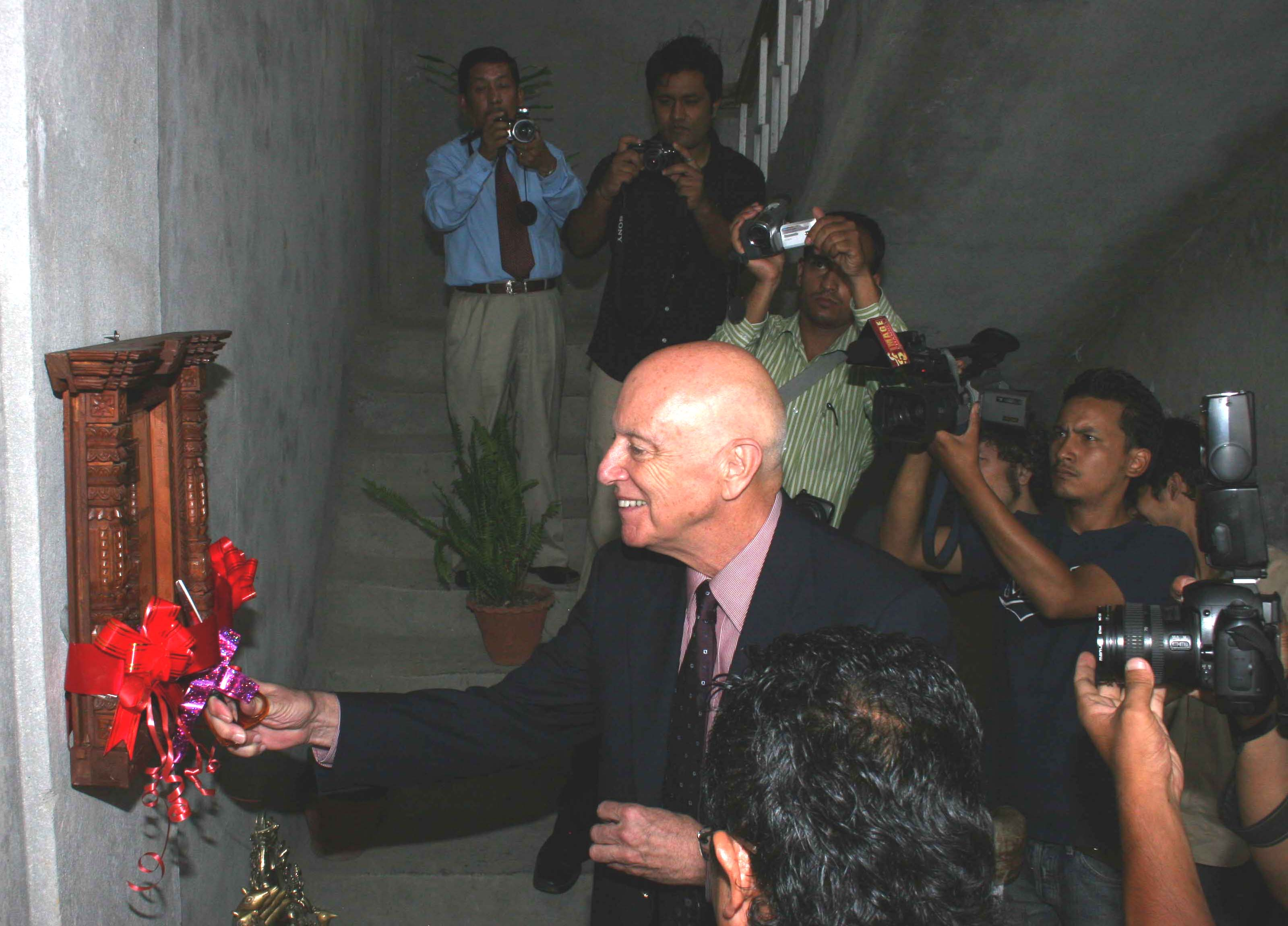 U.S. Cultural Envoy Dr. Gene Aitken begins his first day in Nepal by cutting the ribbon to inaugurate the Kathmandu Jazz Conservatory""